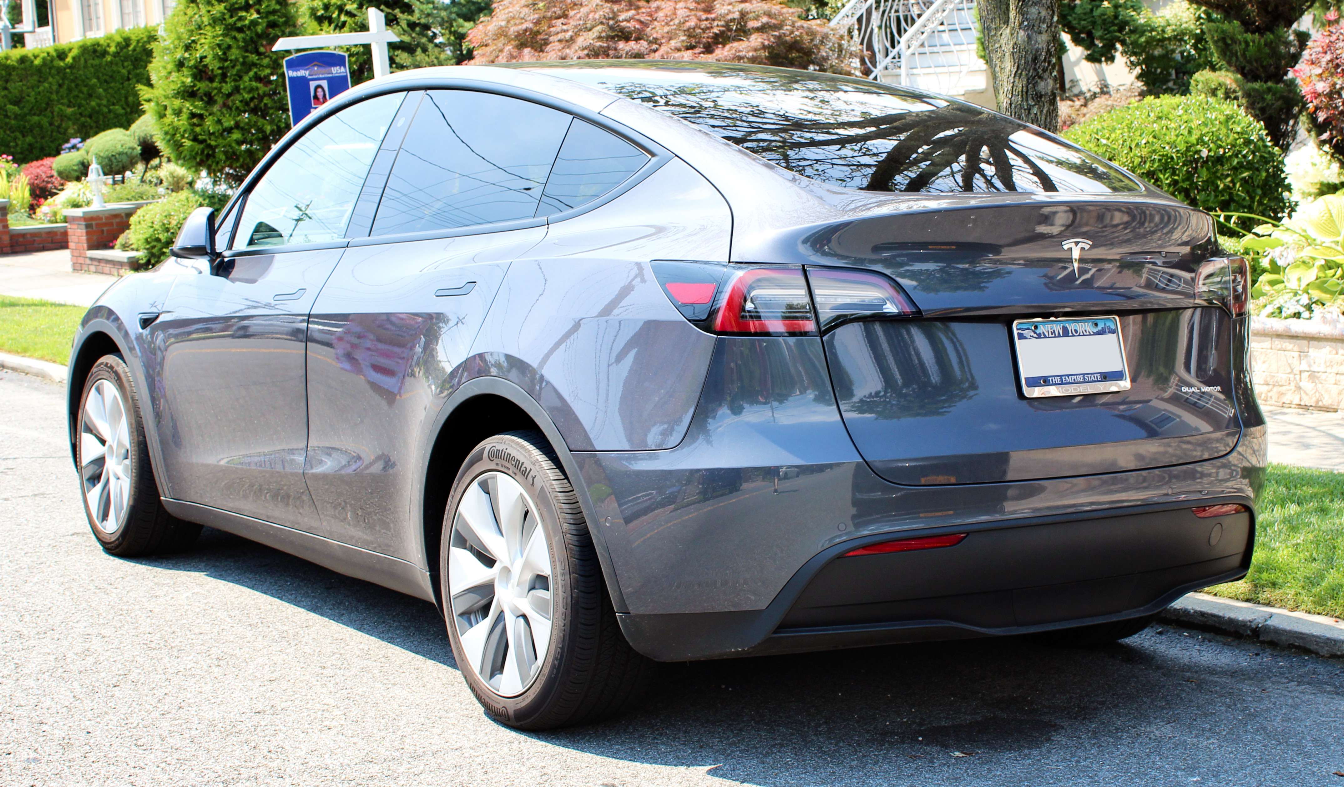 A 2020 Tesla Model Y photographed in Whitestone, Queens, New York, USA